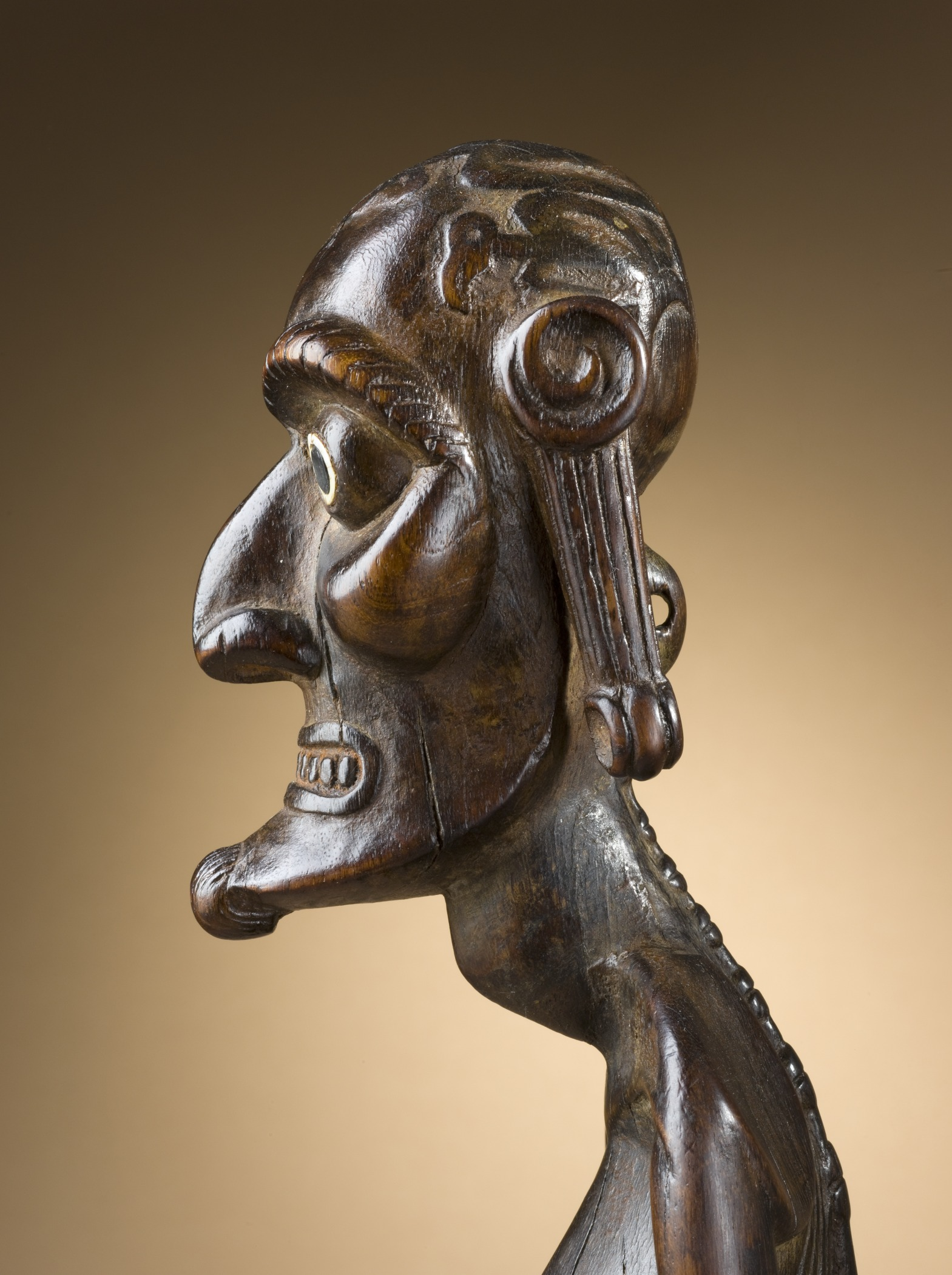 Easter Island (Rapa Nui), circa 1830 Sculpture Wood, bird bone, obsidian, and traces of pigment 17 3/4 x 3 1/2 x 4 in. (45.09 x 8.89 x 10.16 cm) Purchased with funds provided by the Eli and Edythe Broad Foundation with additional funding by Jane and Terry Semel, the David Bohnett Foundation, Camilla Chandler Frost, Gayle and Edward P. Roski and The Ahmanson Foundation (M.2008.66.6) Art of the Pacific Currently on public view: Ahmanson Building, floor 1